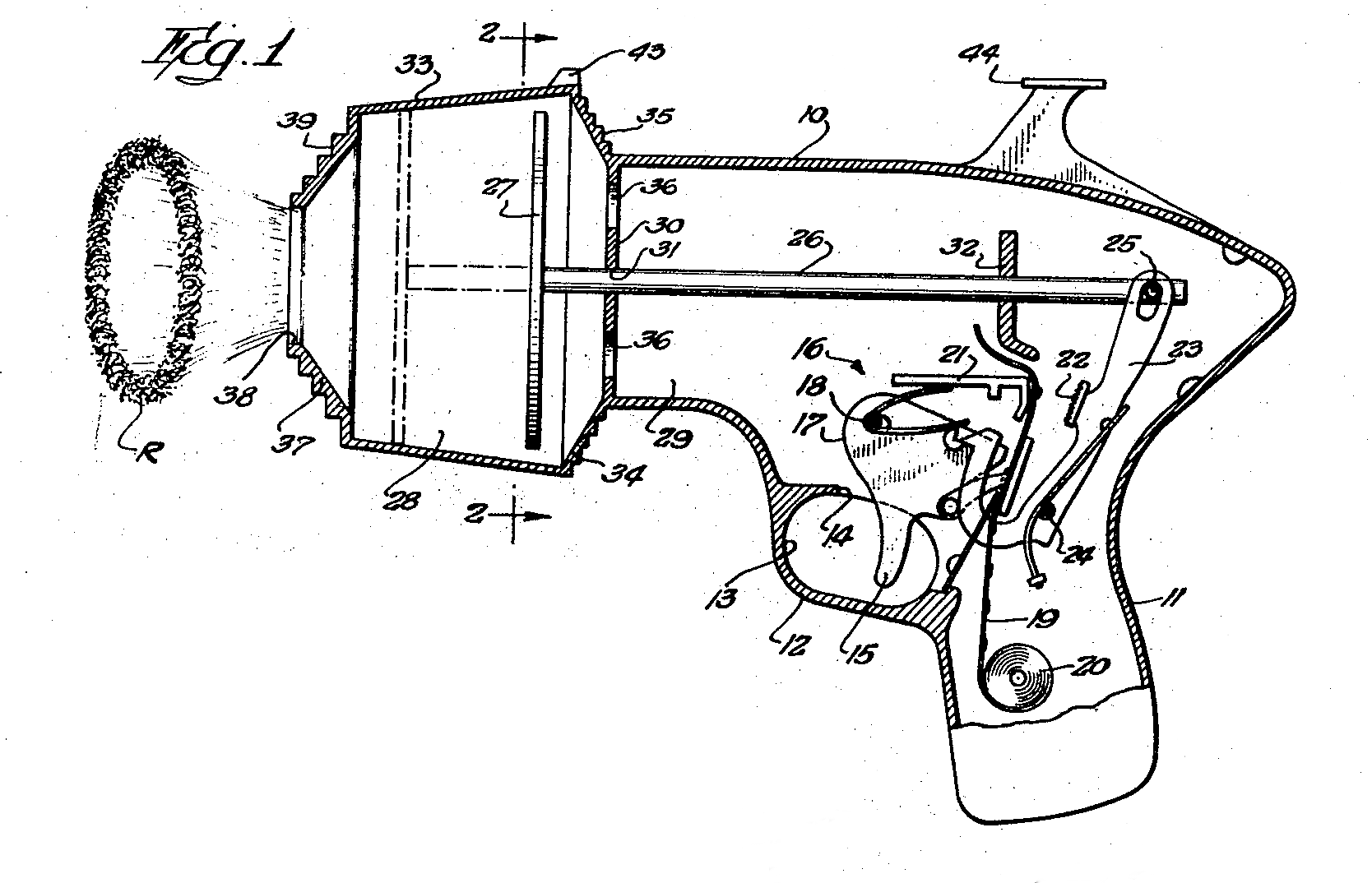 US patent 2855714